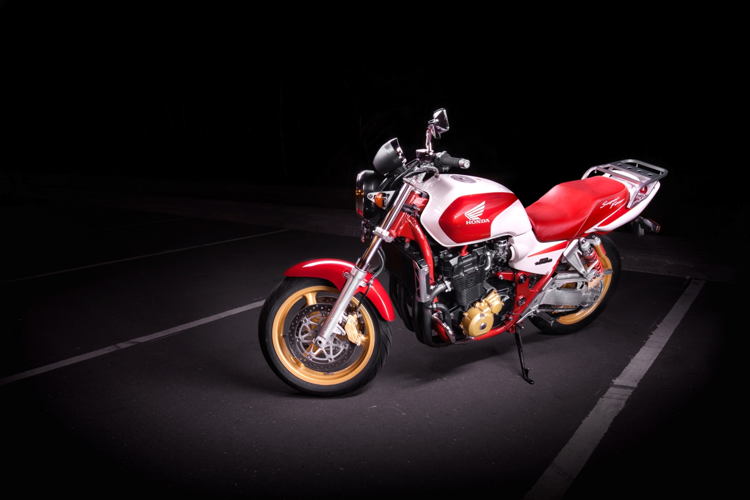 Honda CB1300 Super Four Special